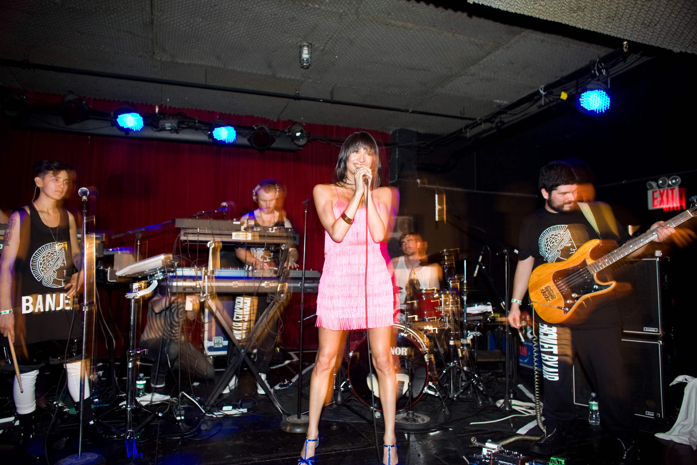 A photo from Hercules and Love Affair's first live show in Brooklyn, New York.